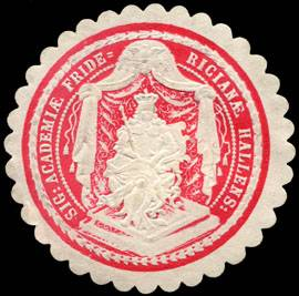 Sealing stamp Title: Sig. Academiae Fridericianae Hallens. Description: rot, weiß, geprägt, Student Place: Halle/S. size: 4 cm